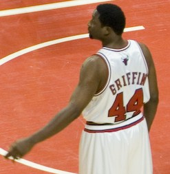 Chicago Bulls and LA Lakers players around the free throw line